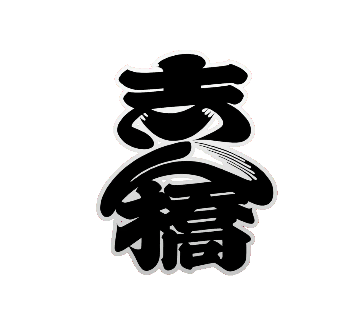 Tokyo Shinbashi-Kumiai Logo